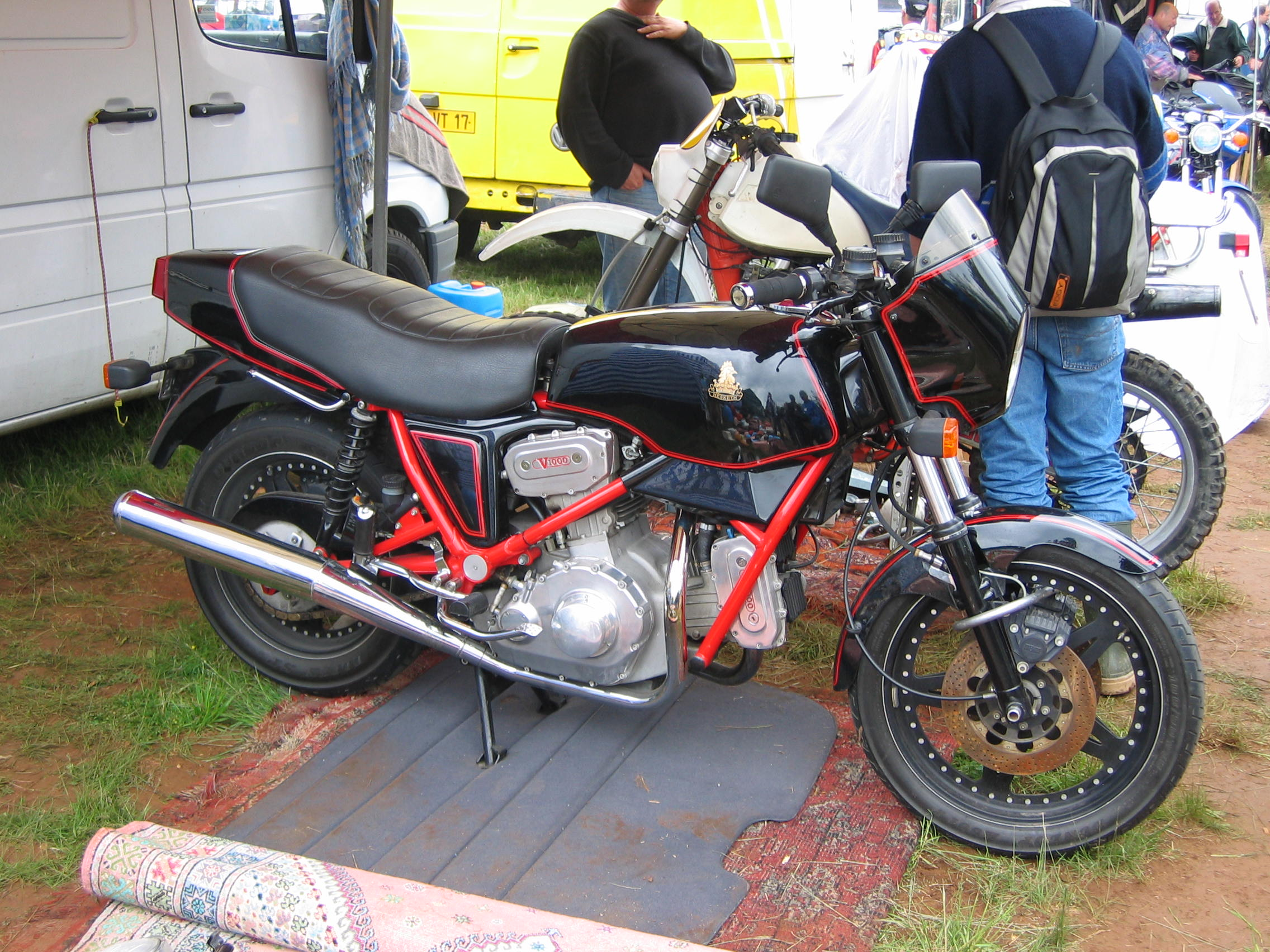 English Hesketh motorcycle V 1000 (about 1980) Picture : Gérard Delafond